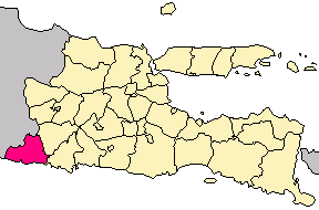 Location of Pacitan county, East Java province, Indonesia